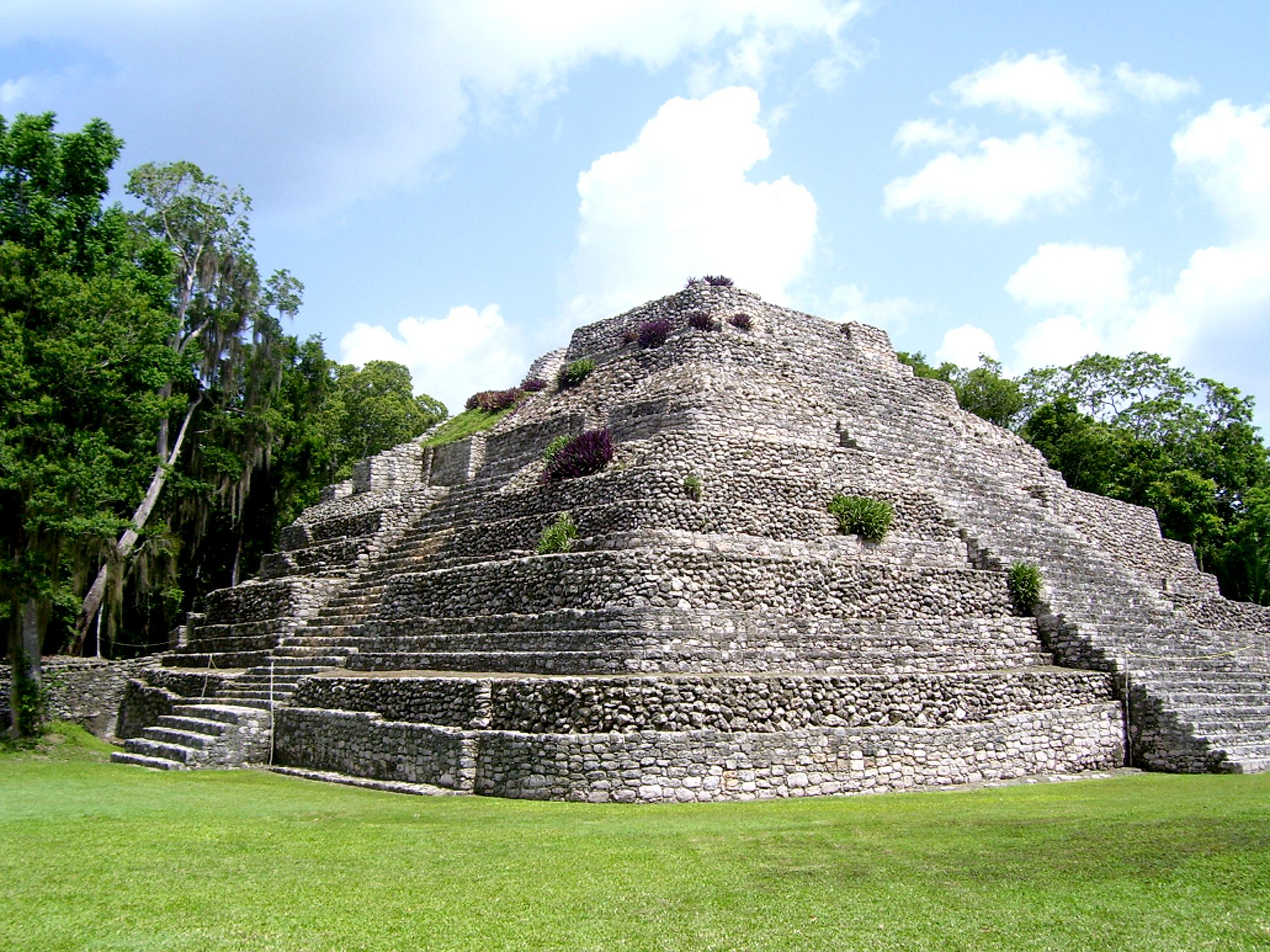 Pyramid in Chacchoben, a maya site in the Mexican state of Quintana Roo